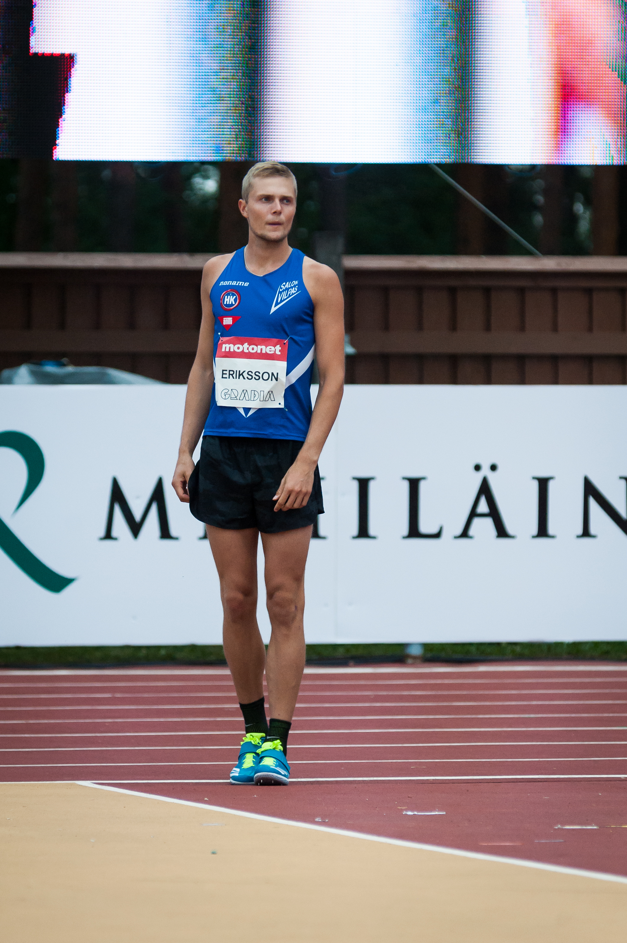 Men's high jump competition at the 2018 Kalevan Kisat, the Finnish championships in athletics, in Jyväskylä, Finland.